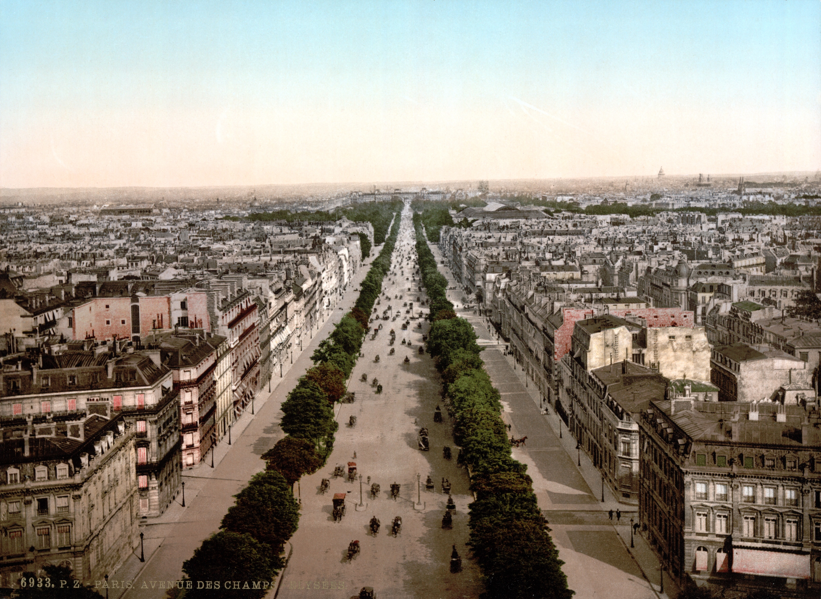 Champs Elysees, an avenue, Paris, France ca. 1890-1900